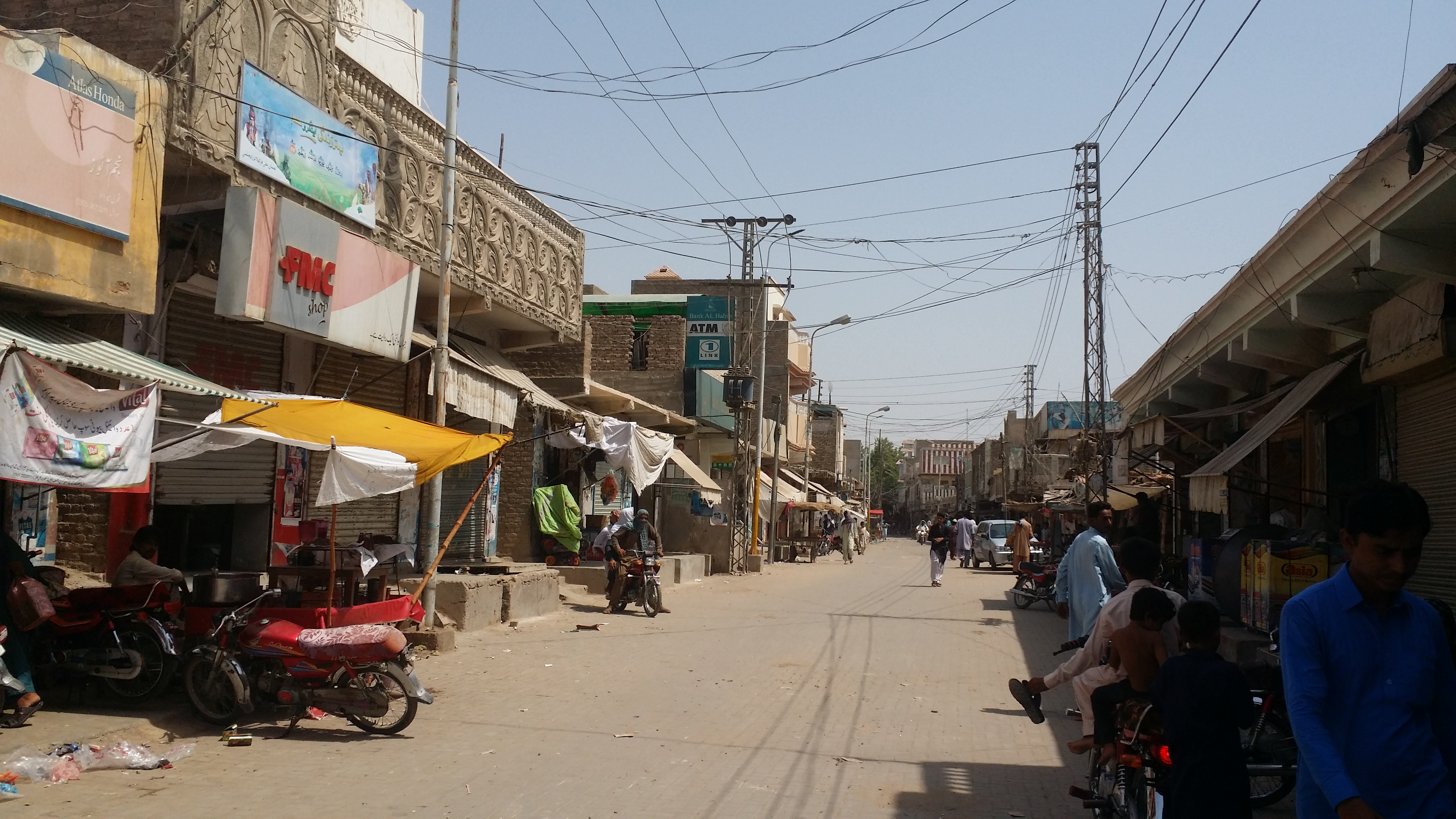 Thari Mirwah سنڌي: ٺري مير واهه